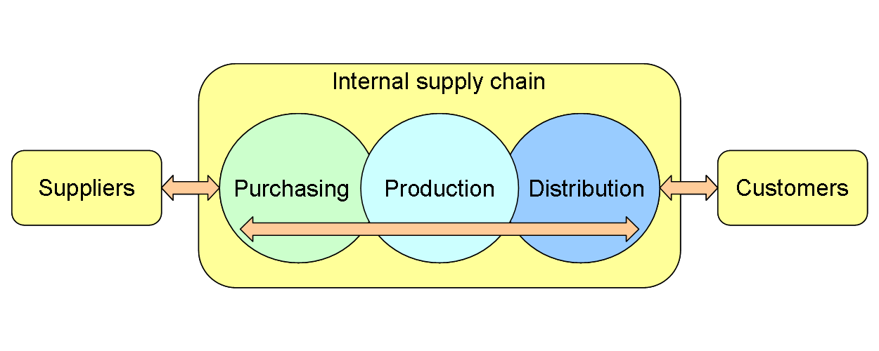 An illustration of a company's supply chain